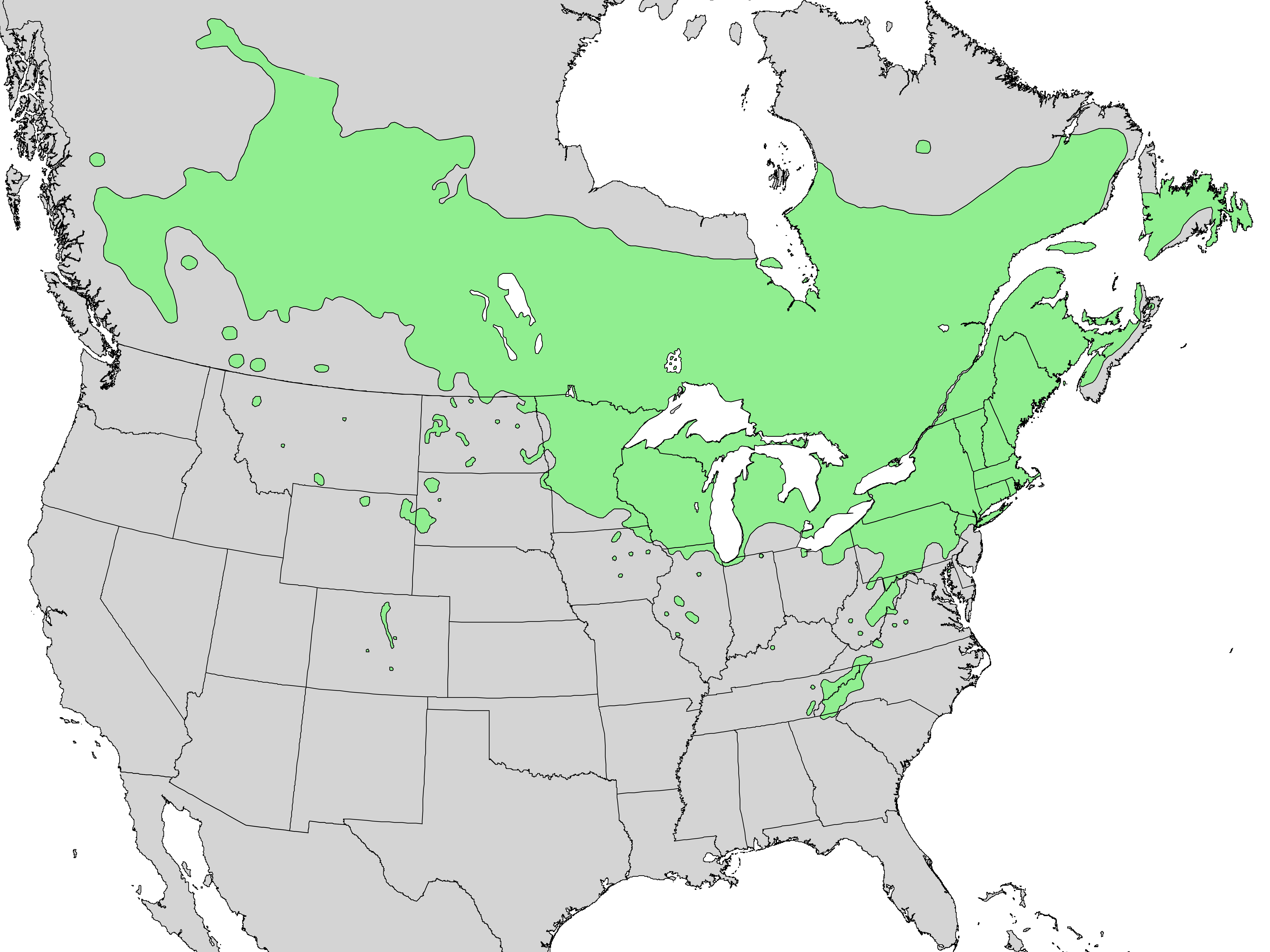 Natural distribution map for Prunus pensylvanica (pin cherry)